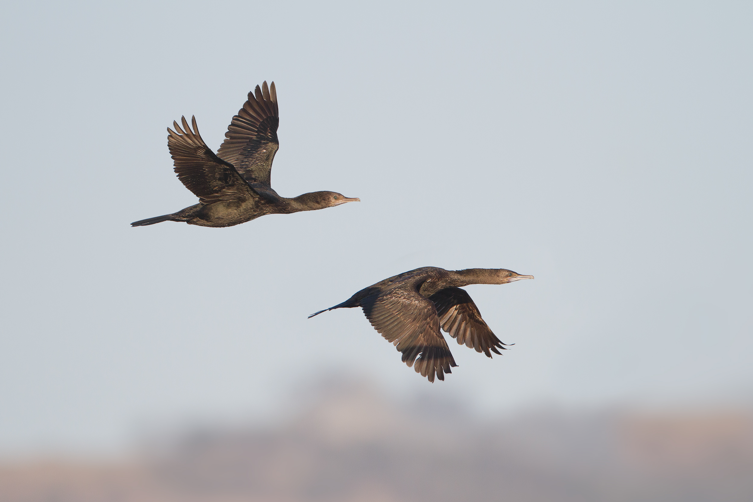 Little Black Cormorant (Phalacrocorax sulcirostris), Gould's Lagoon, Tasmania, Australia